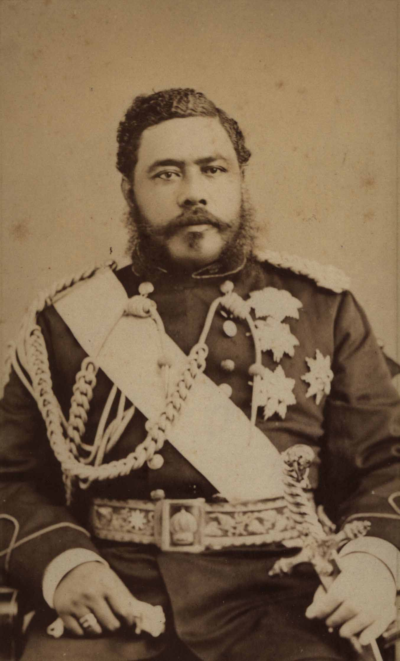 Kalakaua, photograph by A. A. Montano.